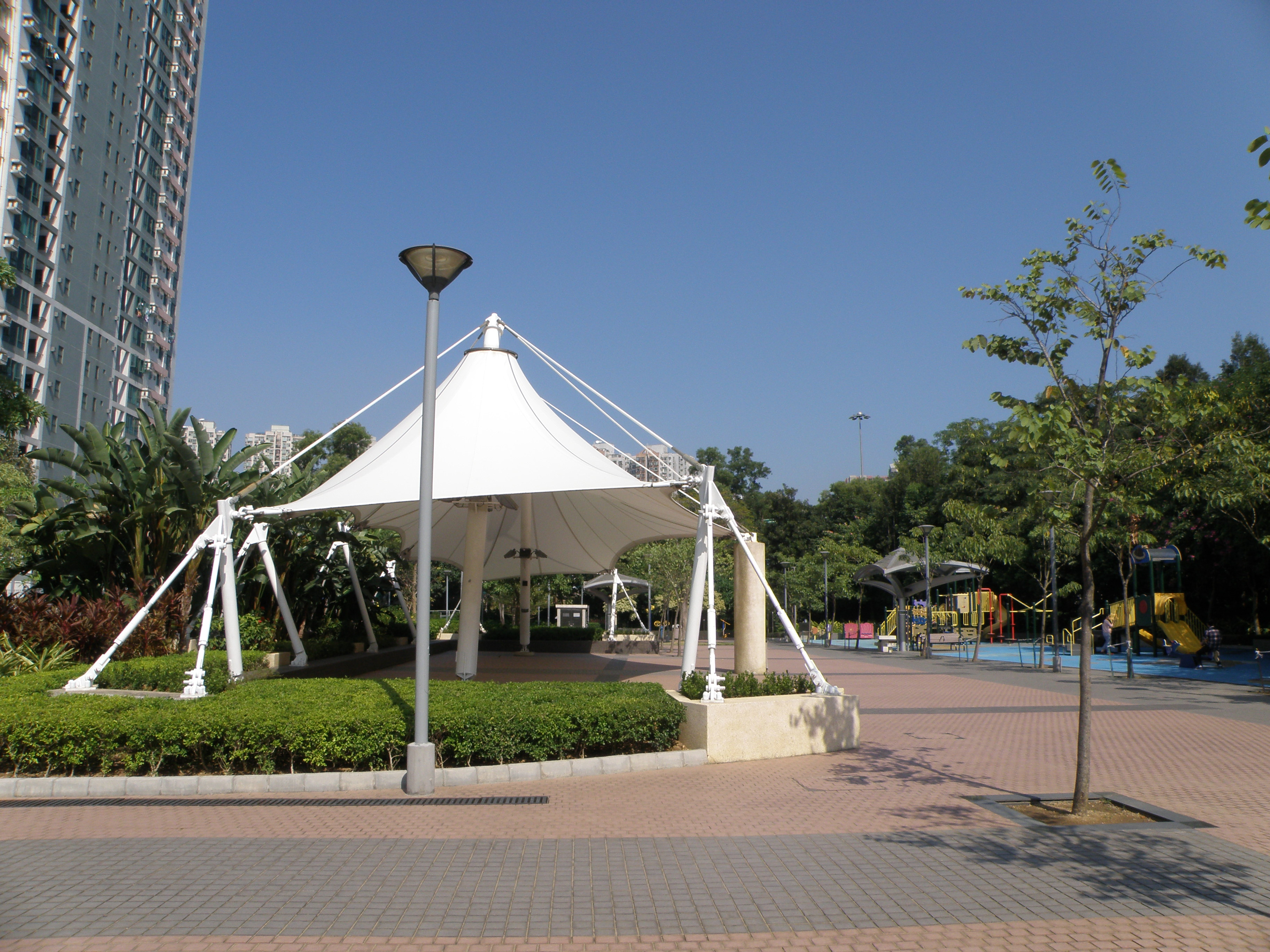 Po Wing Road Playground in Sheung Shui, Hong Kong.